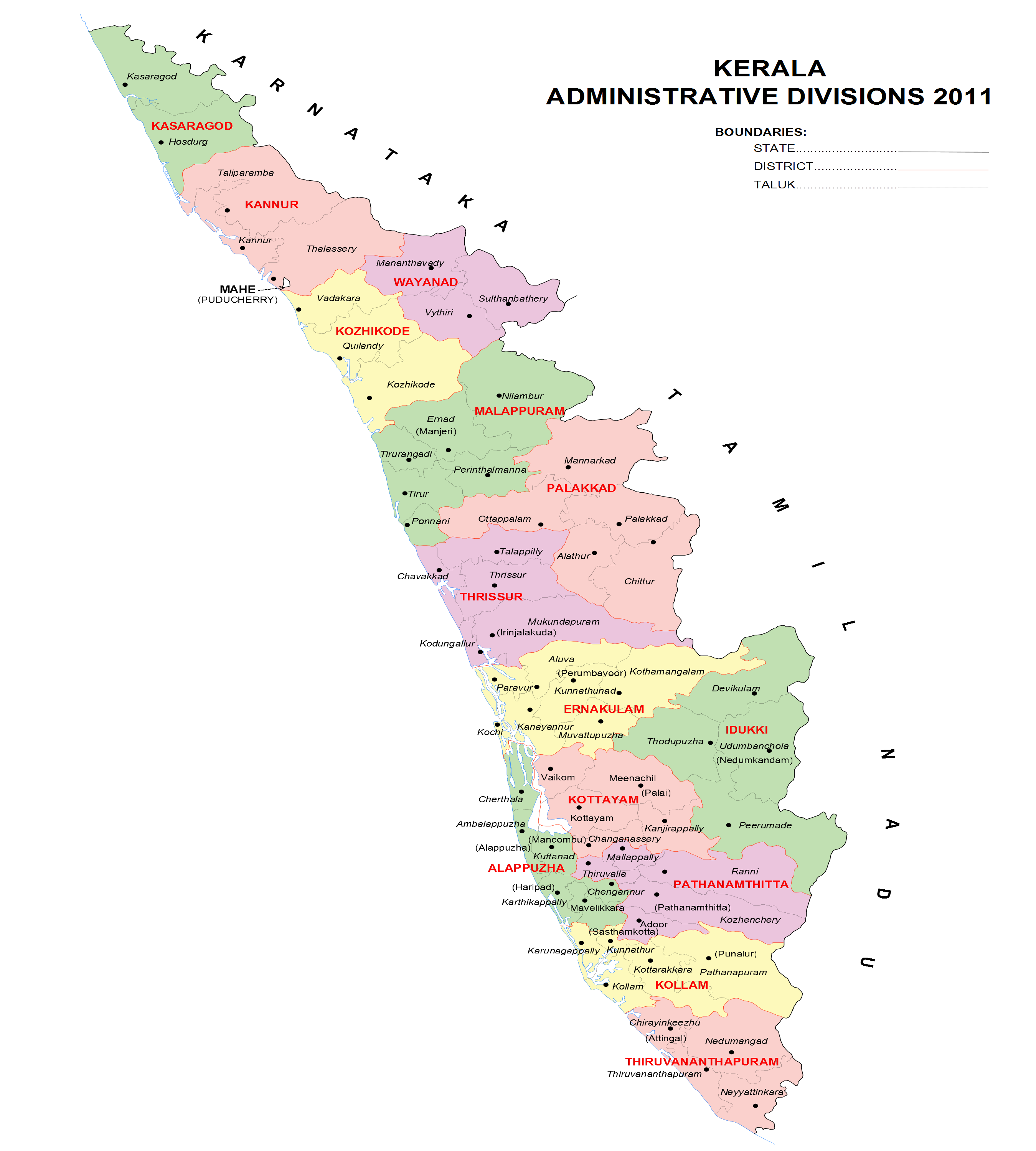 Kerala administrative divisions 2011, png version, English